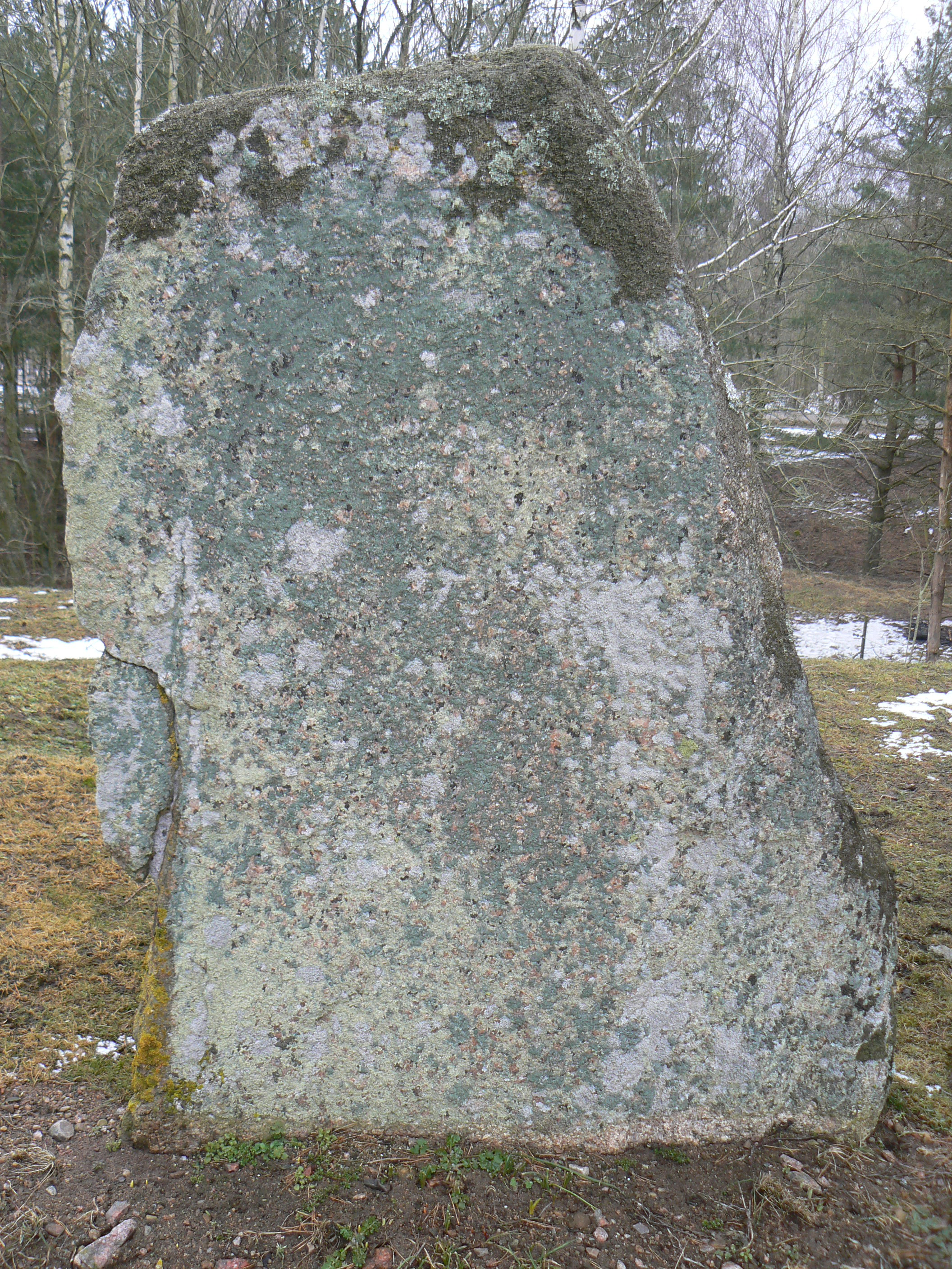 The Östergötlands runinskrifter 115, runestone (not readable) south of Linköping, Sweden.